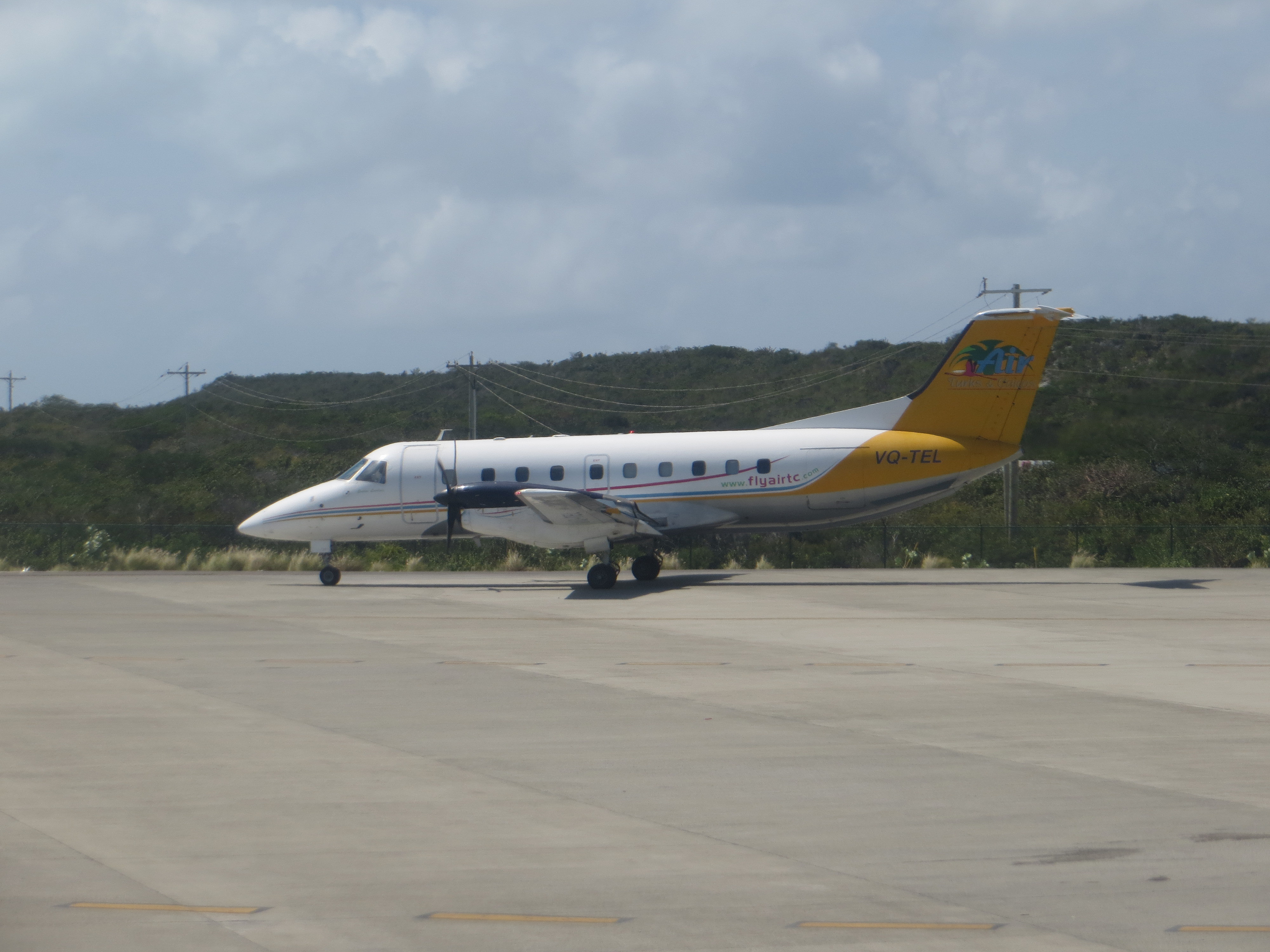 An InterCaribbean Airways Embraer 120 at Providenciales Airport, Turks and Caicos. The aircraft is wearing the old livery